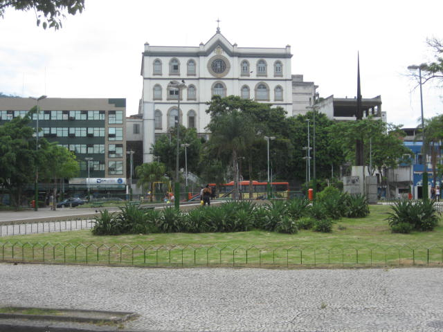 Barão de Drummond square